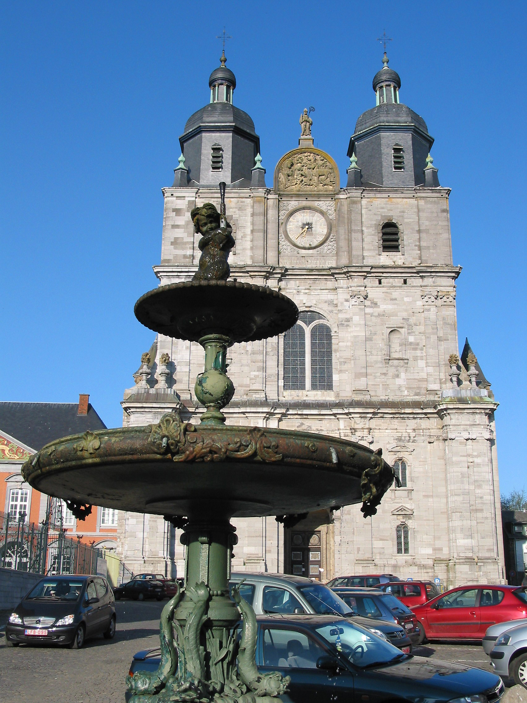 Saint-Hubert, Belgium, the Saint Peter basilica (16/18th centuries).